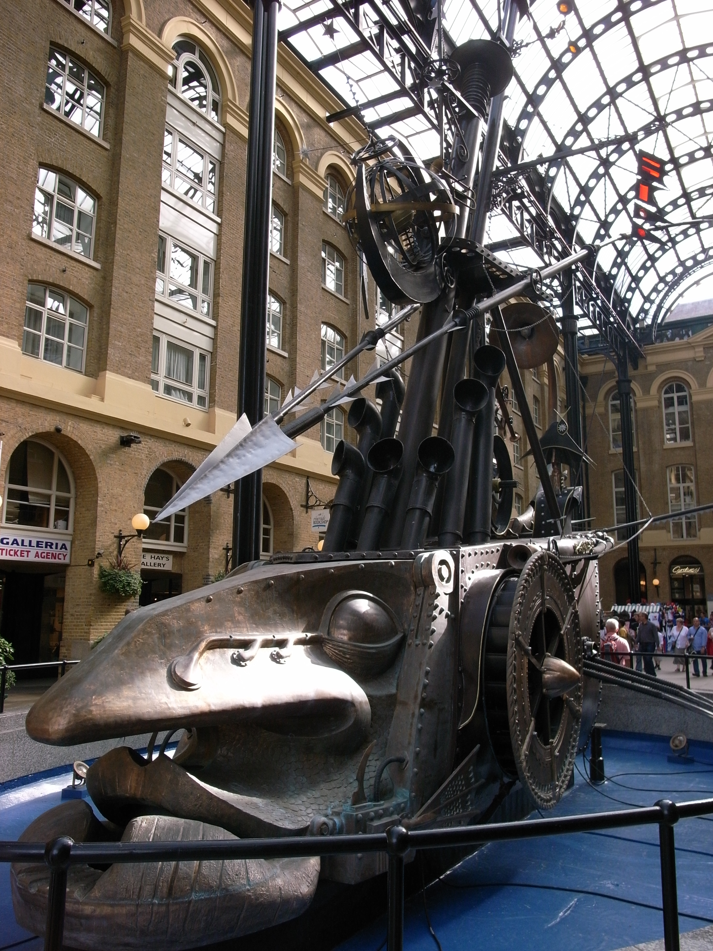 Sculpture: The Navigators 1987 by David Kemp in Hay's Galleria (formerly Hay's Wharf), London, England.